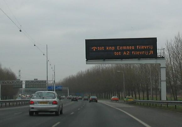 DRIP, Dynamic Route Information Panel, used in the Netherlands for routeinformation